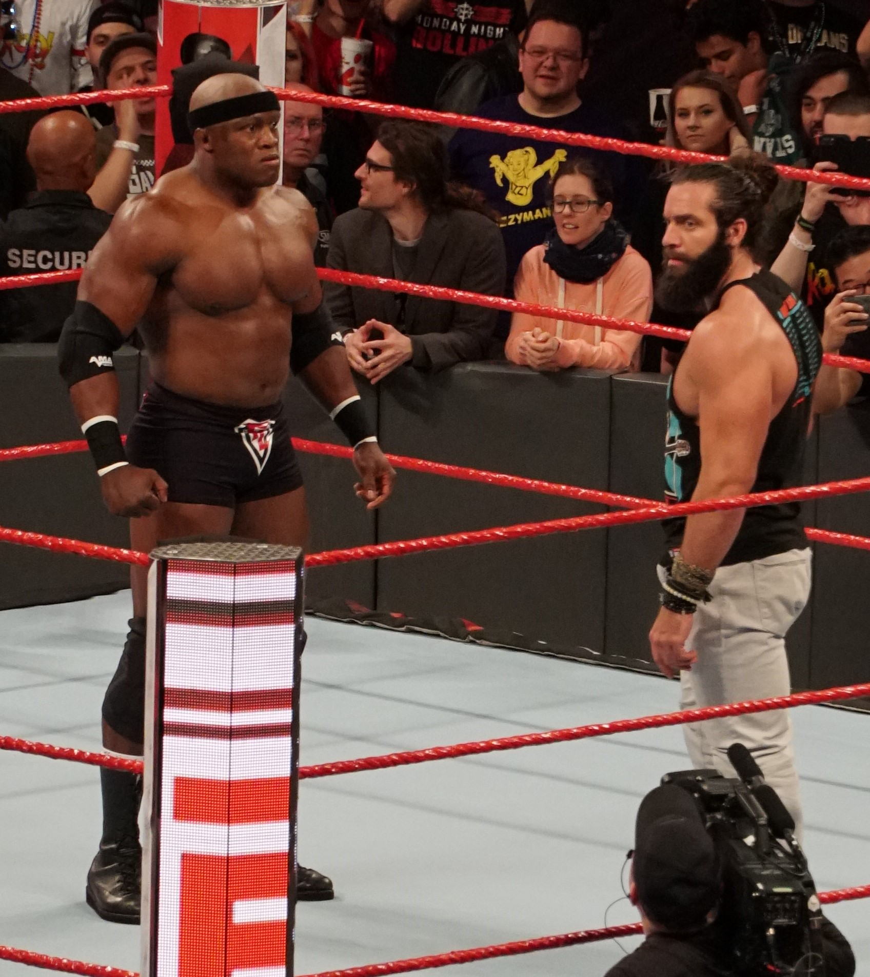 The returning Bobby Lashley interrupts Elias on Raw in April 2018.